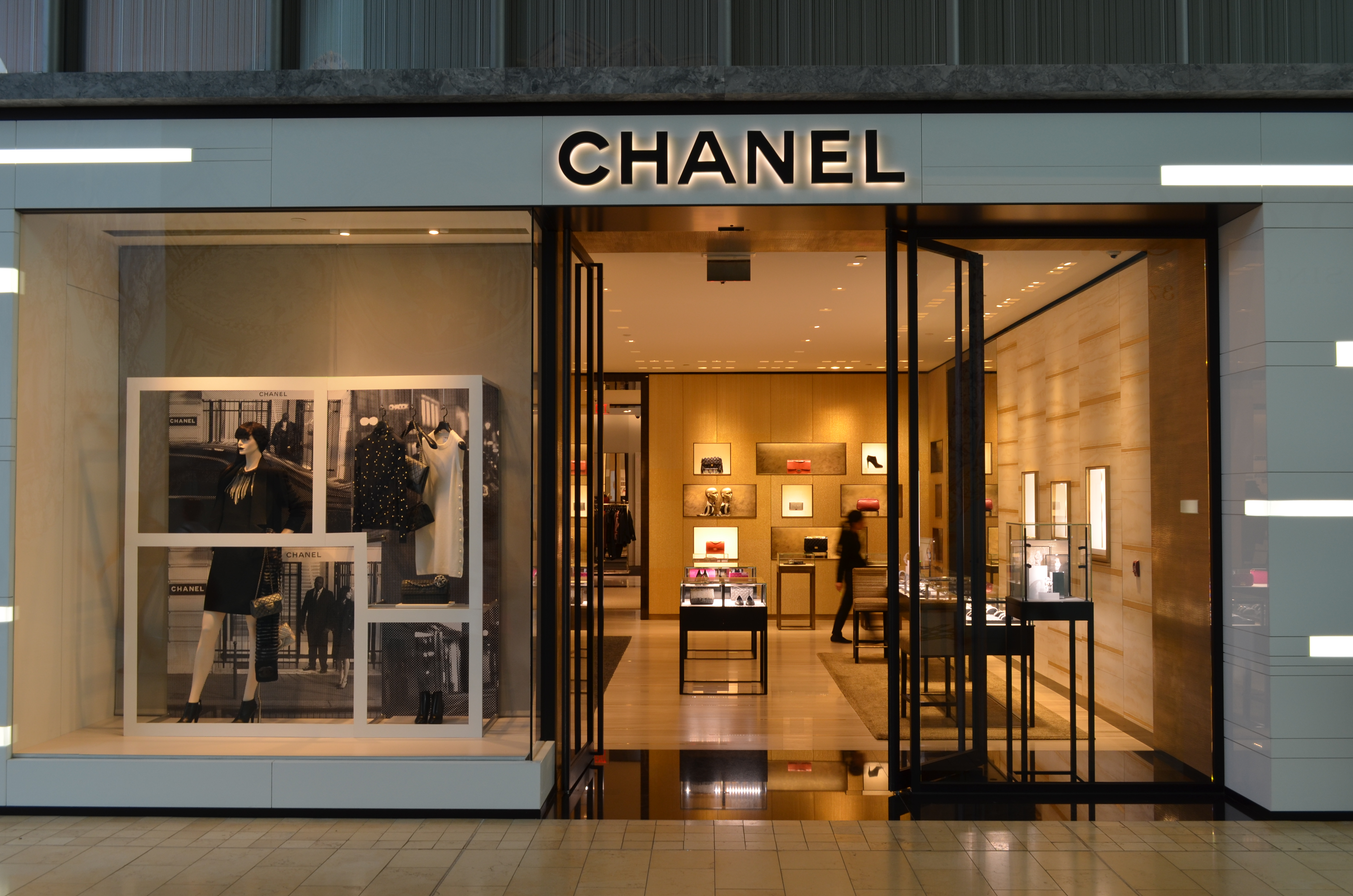 CHANEL at Yorkdale Mall